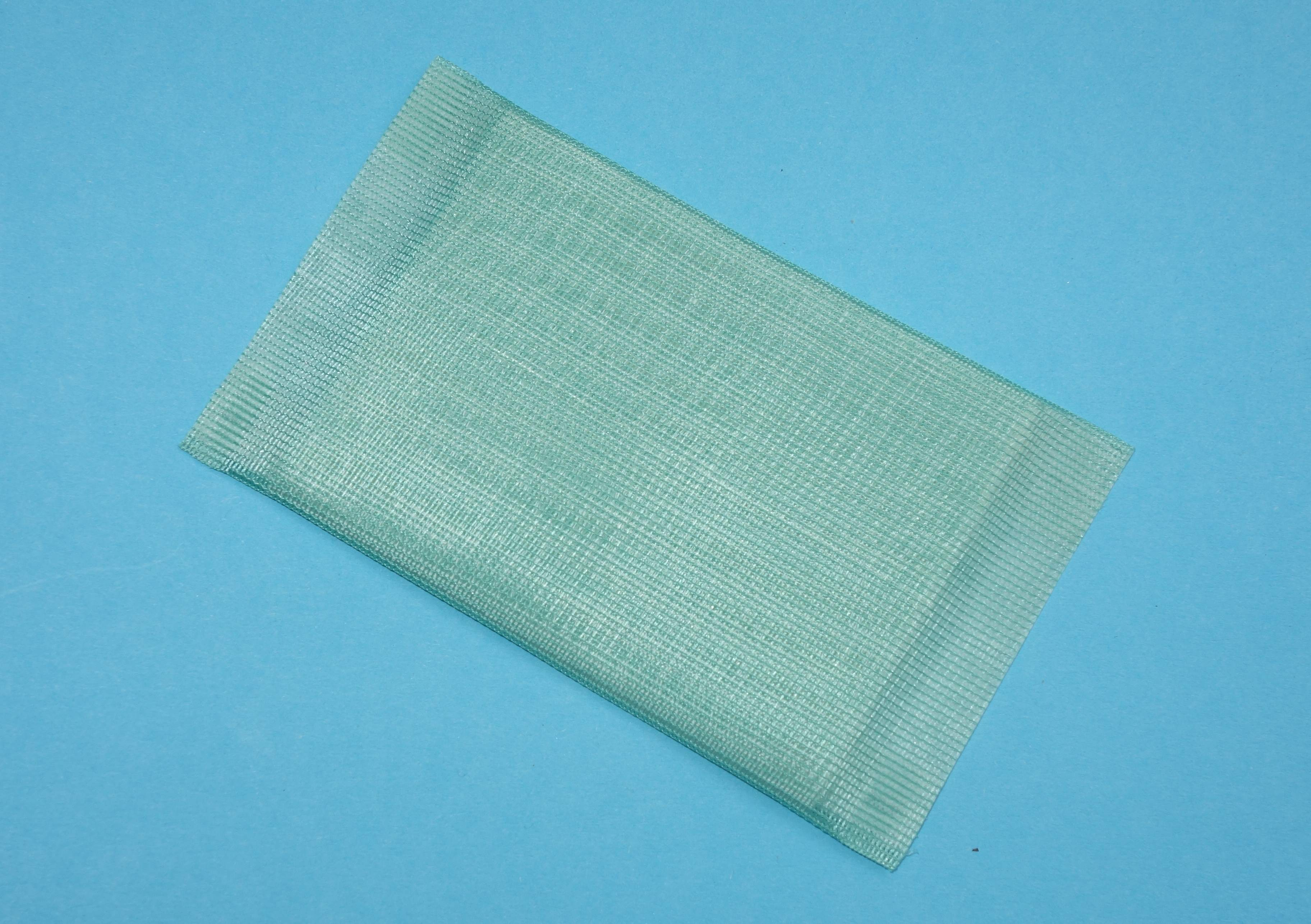 Dressing for wound treatment